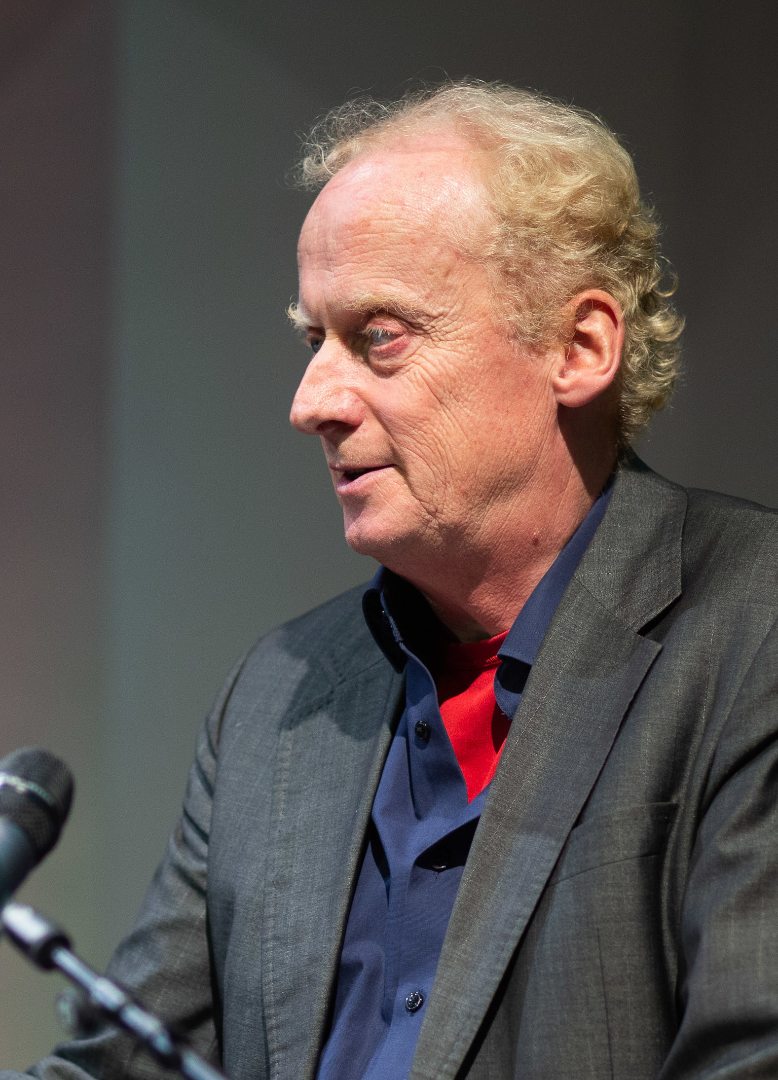 The Conjectural Futures Conference took place on November 5 and 6, 2018 in Berlin, Germany. It consisted of 2 days of foresight talks and workshops for strategists, foresighters, innovators and designers. The conference was organised by the Corporate Foresight Teams of Evonik and Deutsche Bahn. For